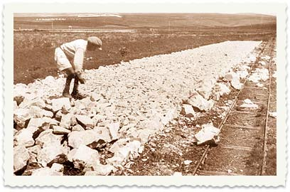 Pioneers in Kibbutz Ein Harod, settlements in Israel